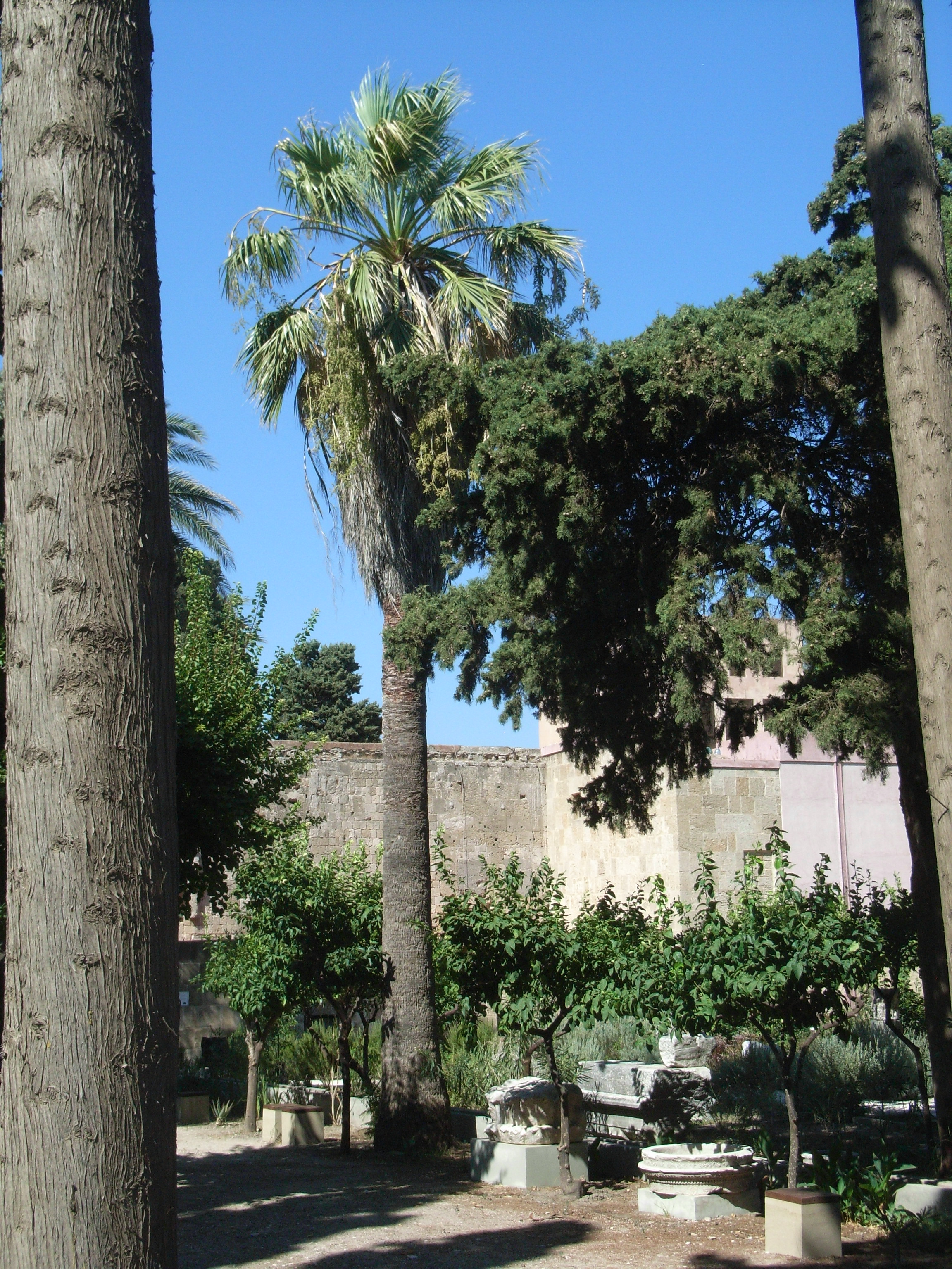 Archaeological Museum Rhodes